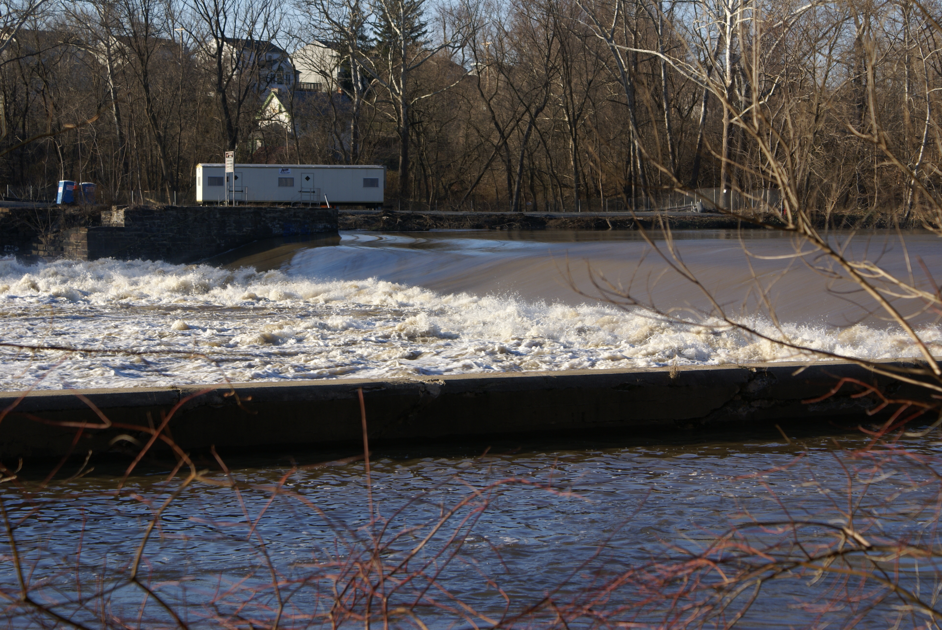 Black Rock Dam during a spring freshet. Black Rock Dam impounds the Schuylkill River in Pennsylvania. In the foreground is the forebay for the Schuylkill Canal, Oakes Reach Section. The trailer on the far side is for the construction of the fish ladder.